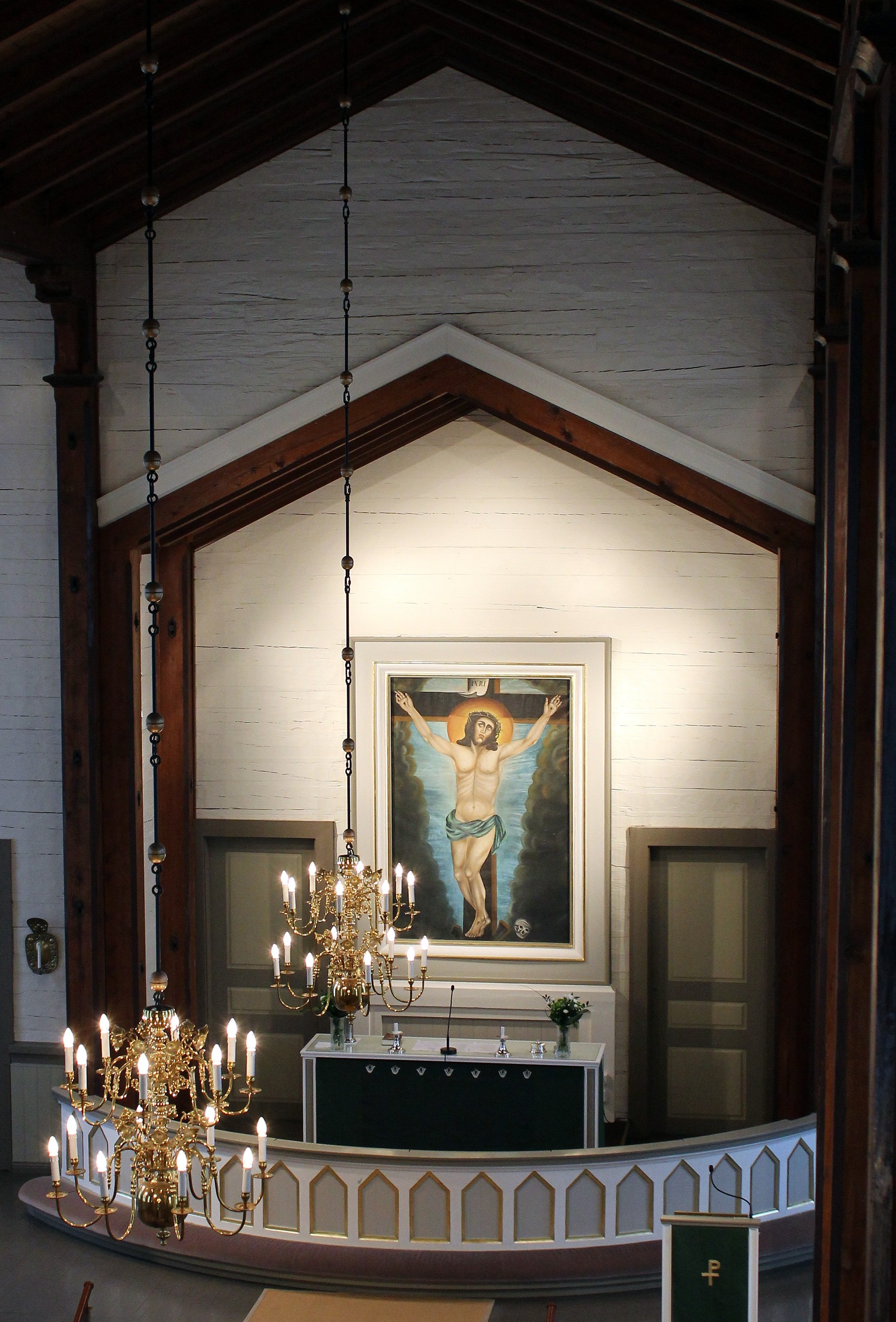 The altar of the Oulunsalo Church. Altarpiece has been painted by G. A. Dahlström in 1855.